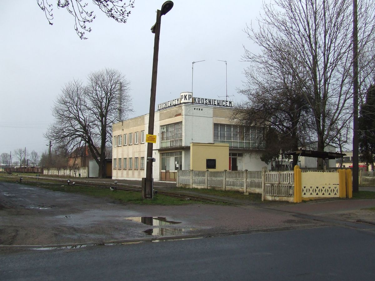 Krośniewice railway station (closed)